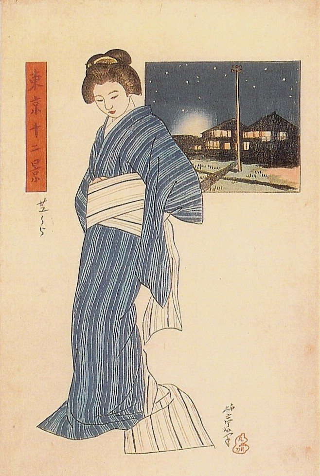 Ishii Hakutei: one of 12 ladies form Tokyo